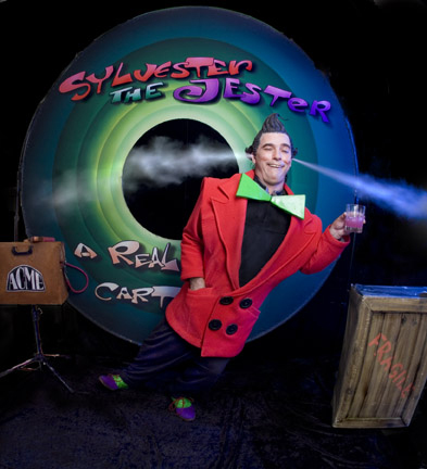 Sylvester the Jester, performing his "Steam from the Ears" effect